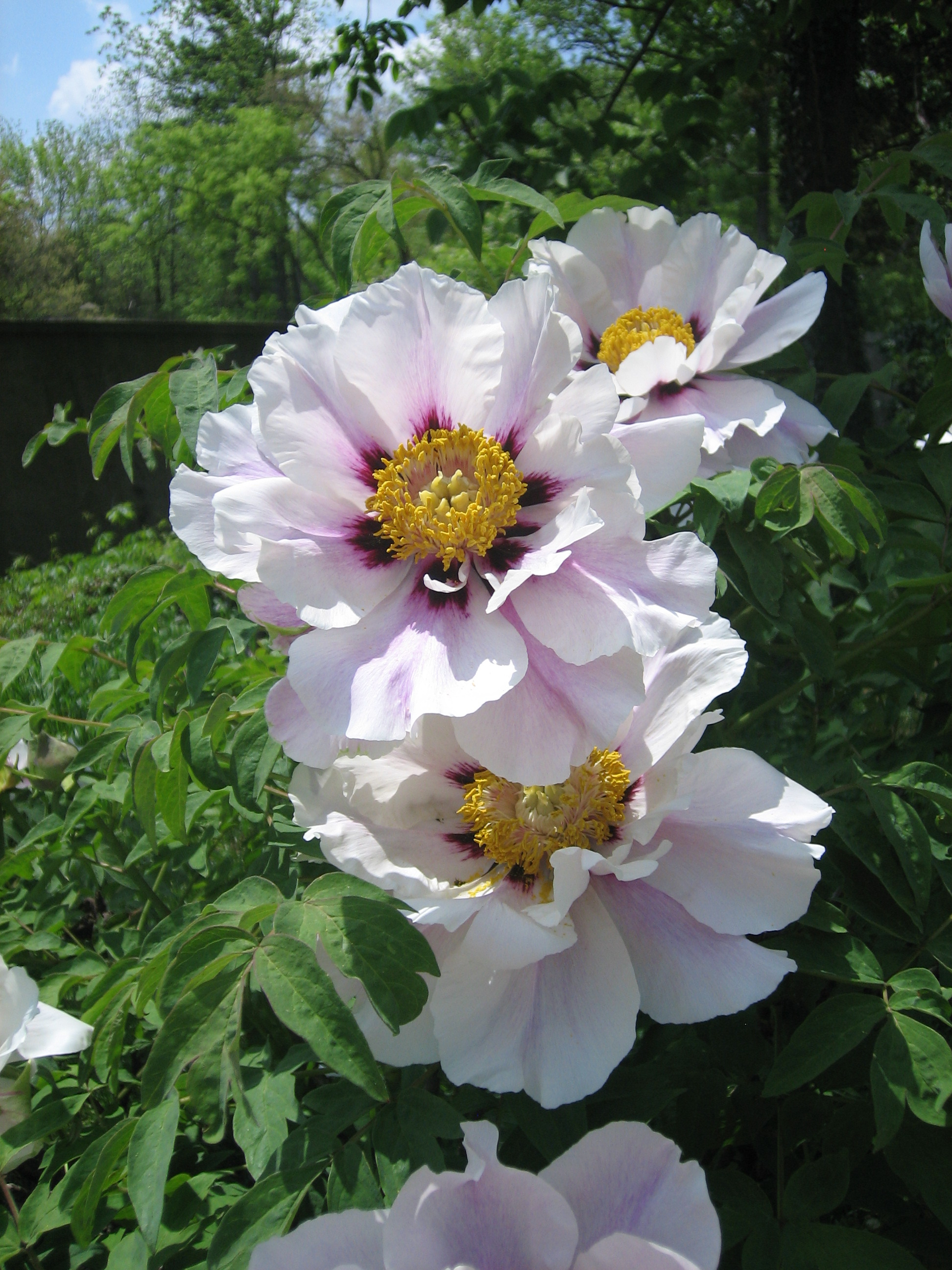 Tree Peony